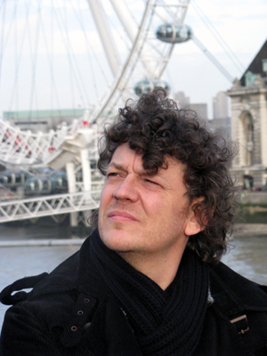 Alain Van Zeveren - Belgian Composer